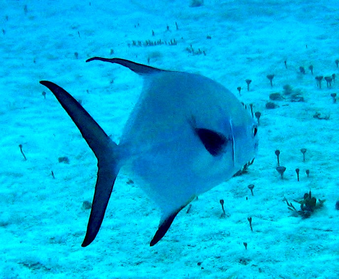 A Permit (Jackfish) photographed outside Puerto Morelos, Mexico. It was swimming quite fast!